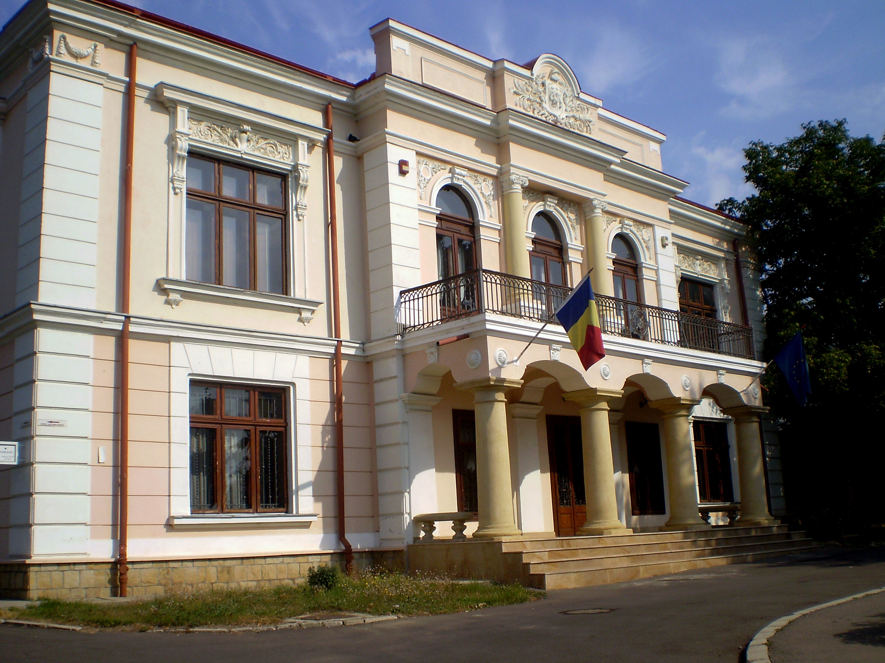 Romanian Literature Museum , Pogor House , Iaşi , Romania